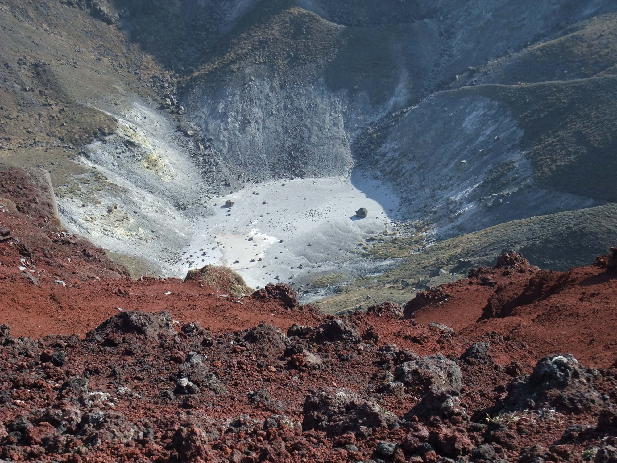 Crater of Ohachi